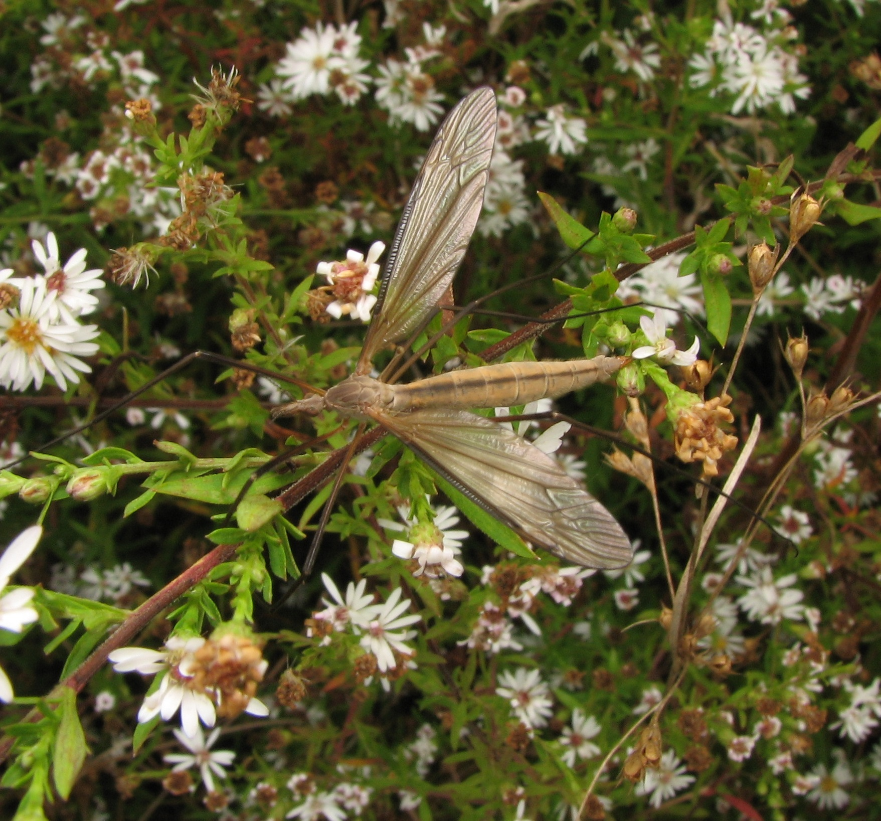 Tipula paterifera female. Pennypack Restoration Trust, Montgomery County, Pennsylvania, USA.